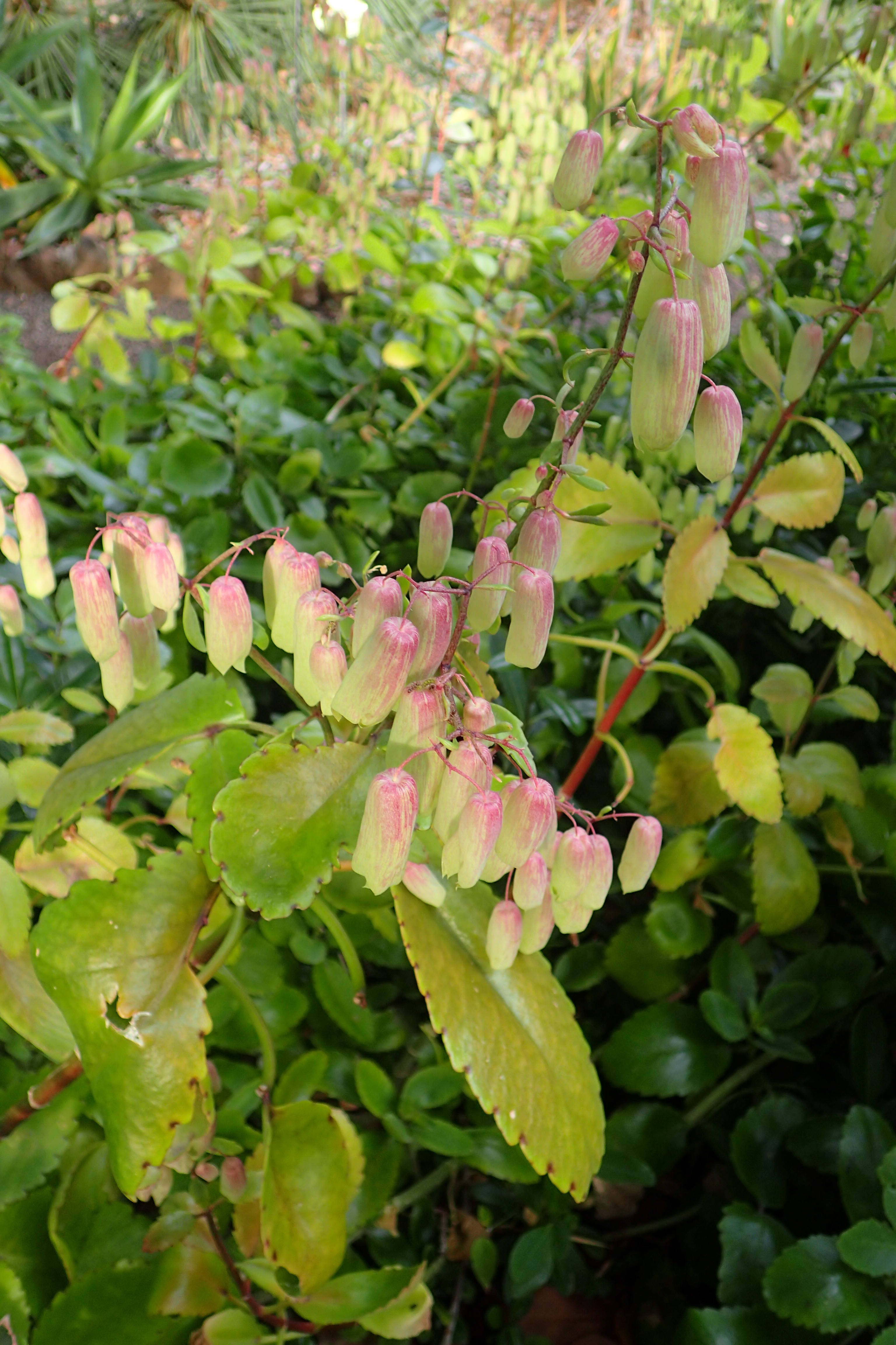 Kalanchoe pinnata in Jardín de Aclimatación de la Orotava